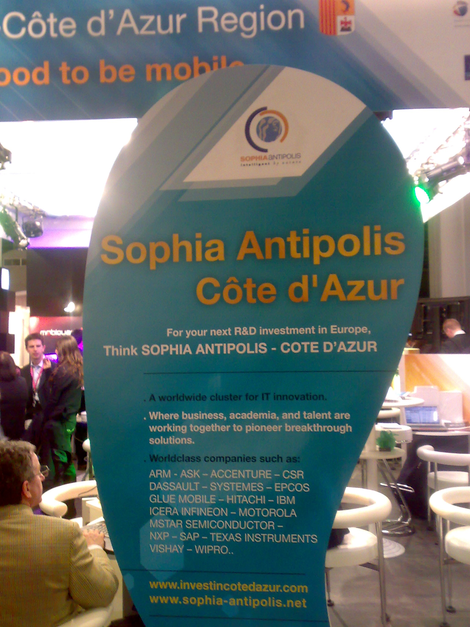 Sophia Antipolis promotion booth at GSMA Barcelona 2008